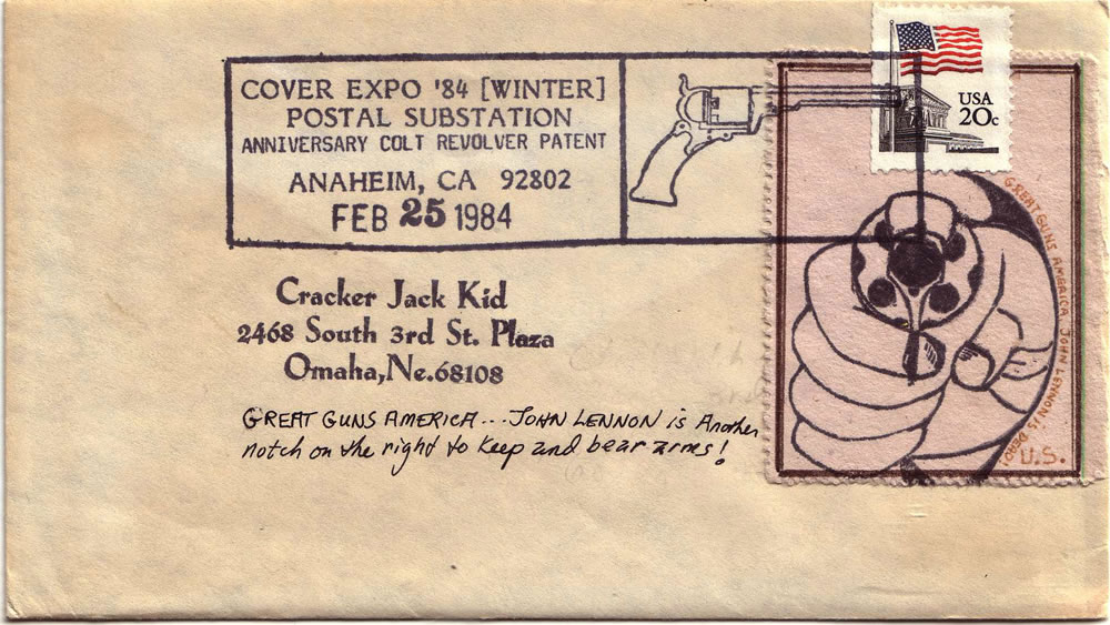 Mail Art Envelope from CrackerJack Kid, aka Chuck Welch, (artist)